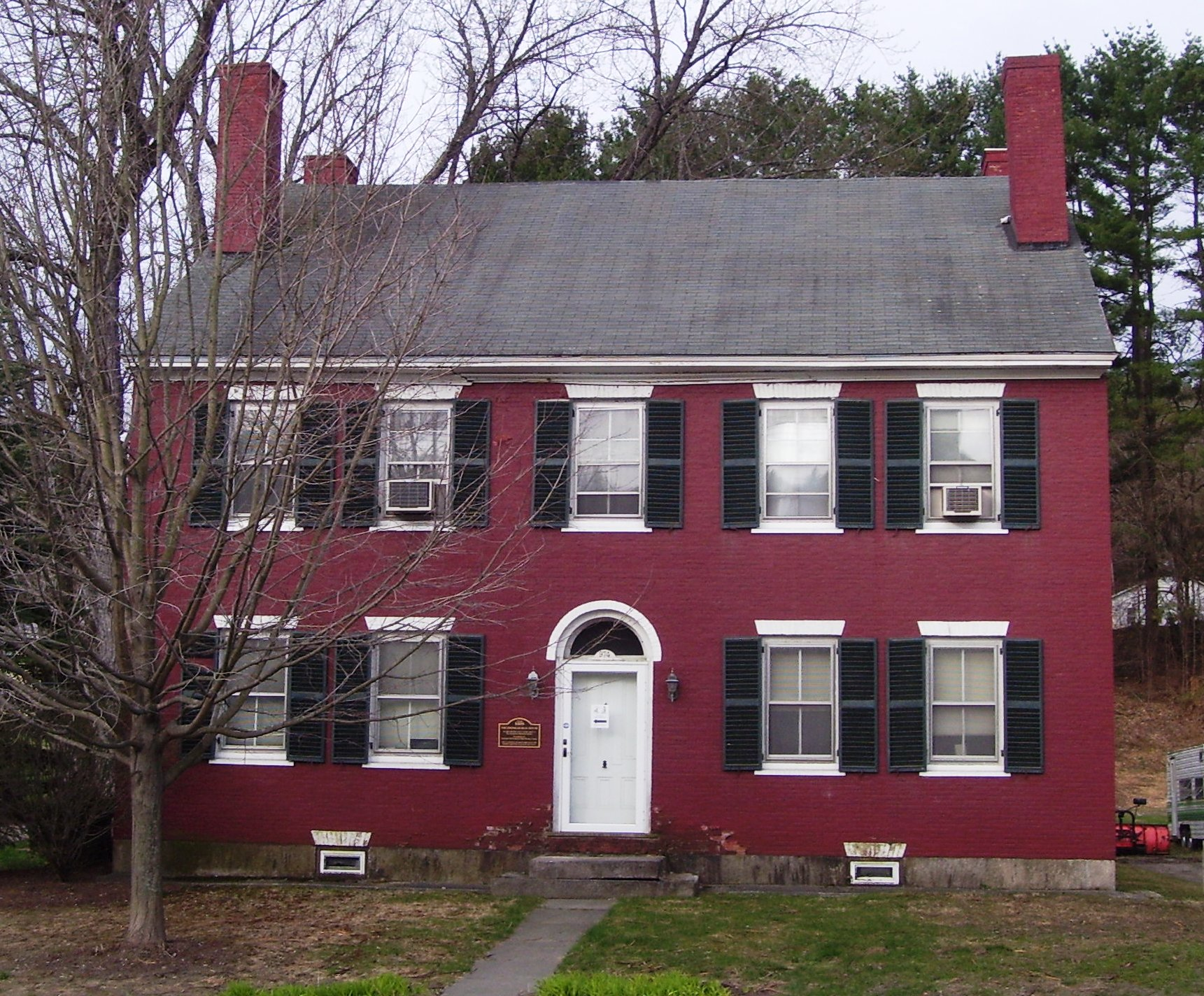 The Jeremiah Beal House Museum, at 974 Western Avenue in West Brattleboro, Vermont, was built c.1805 and is the headquarters of the Brattleboro Historical Society, which was founded in 1982. (Sources: Historical plaque on the Beal House and "About" on the BHS website)